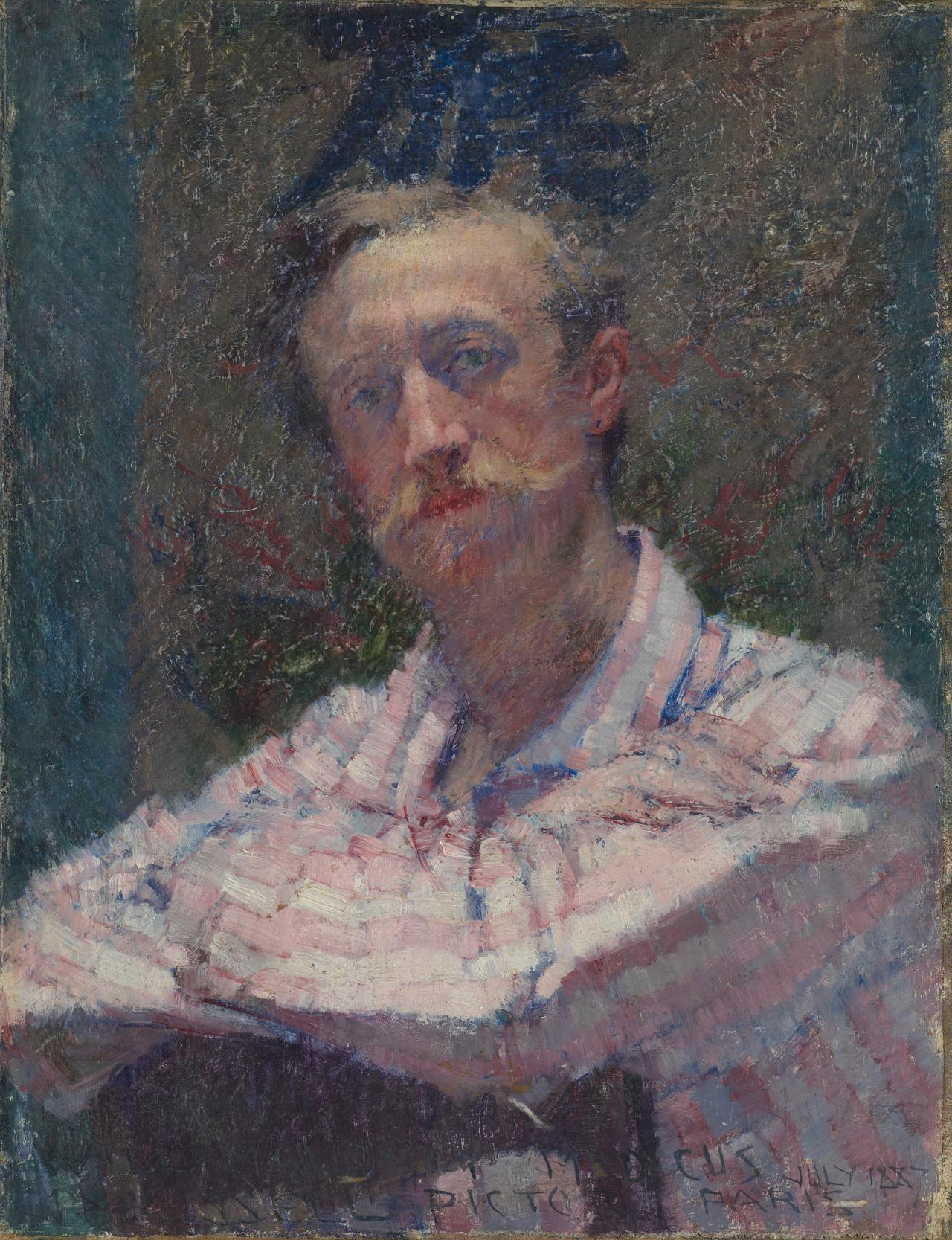 Dr Will Maloney, painting by John Peter Russell, oil on canvas, 48.5 × 37.0 cm